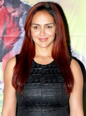 Esha Deol at the trailor launch of 'Barefoot To Goa'